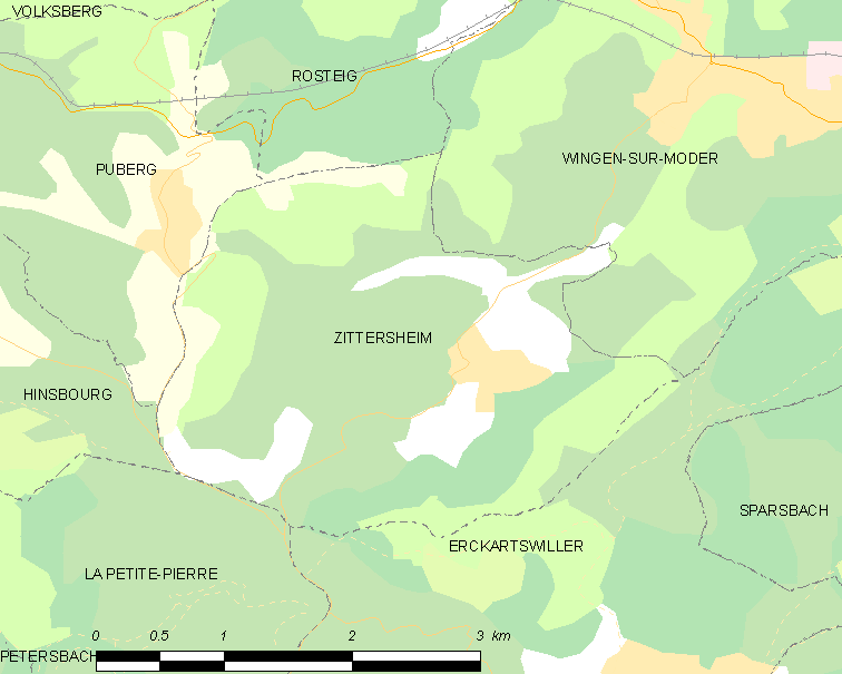 Map of French municipality